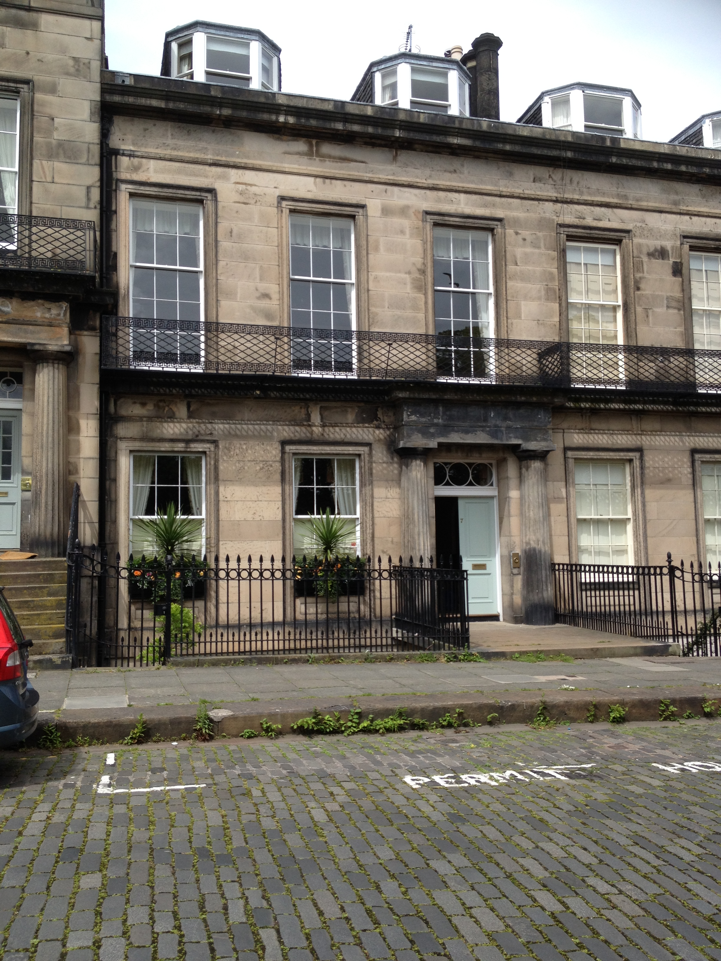 Front of 17 Regent Terrace, Edinburgh Wikidata has entry Q17570277 with data related to this item.